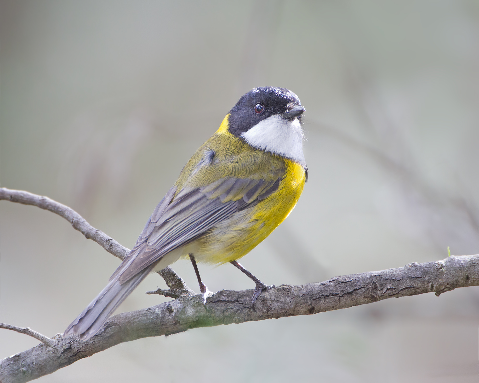 Golden Whistler (Pachycephala pectoralis), Risdon Brook Park, Tasmania, Australia